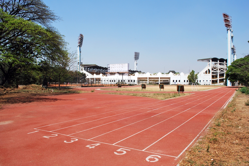 Sree Kanteerava Stadium, Bangalore